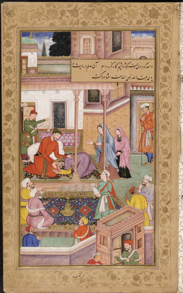 Description from source: "Manuscript commissioned by the Mughal emperor Akbar (1542-1605), containing stories by the Persian poet Jami (1414-1492), entitled Baharistan (Garden of spring), illustrated with miniature paintings by the Mughal court artists, the margins decorated throughout with gold patterns and figures, some coloured." Bodleian Libraries shelfmark: MS. Elliott 254, fol. 29a